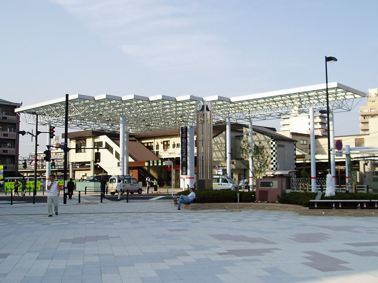 Tobu Asaka Sta.